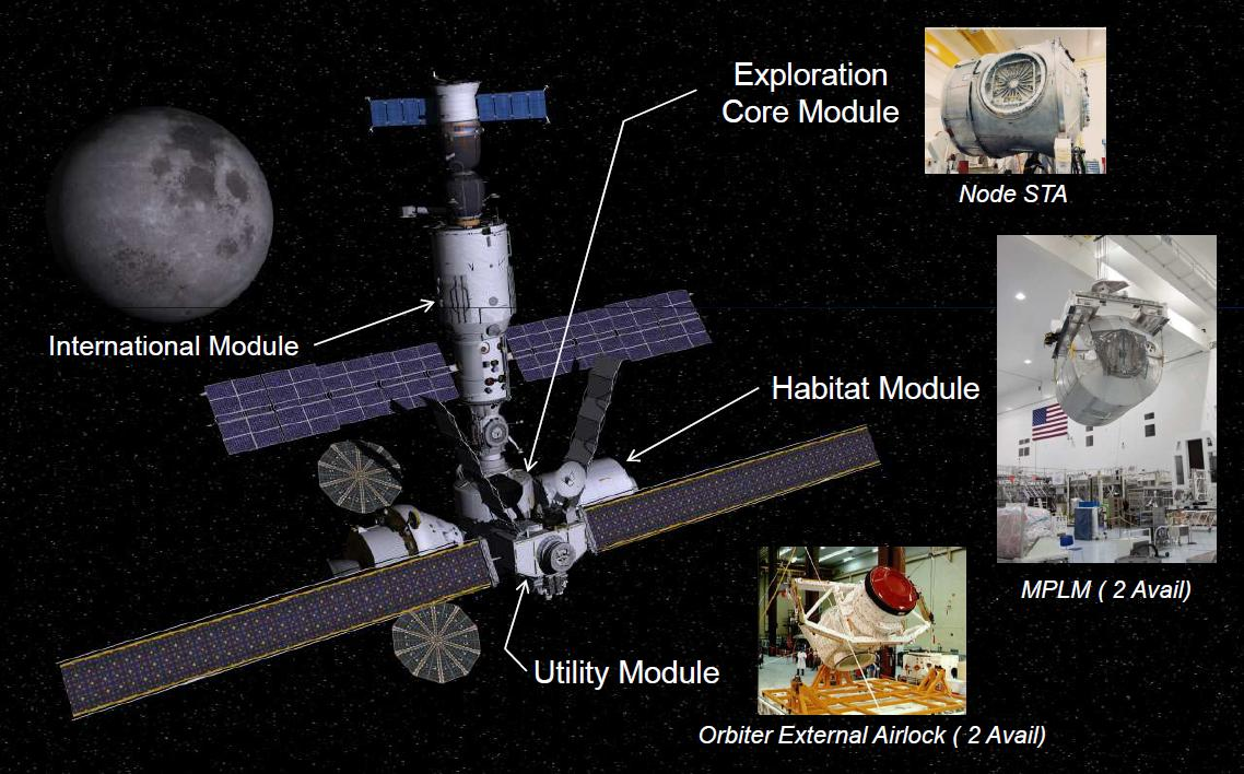 Exploration Gateway Platform Component make up